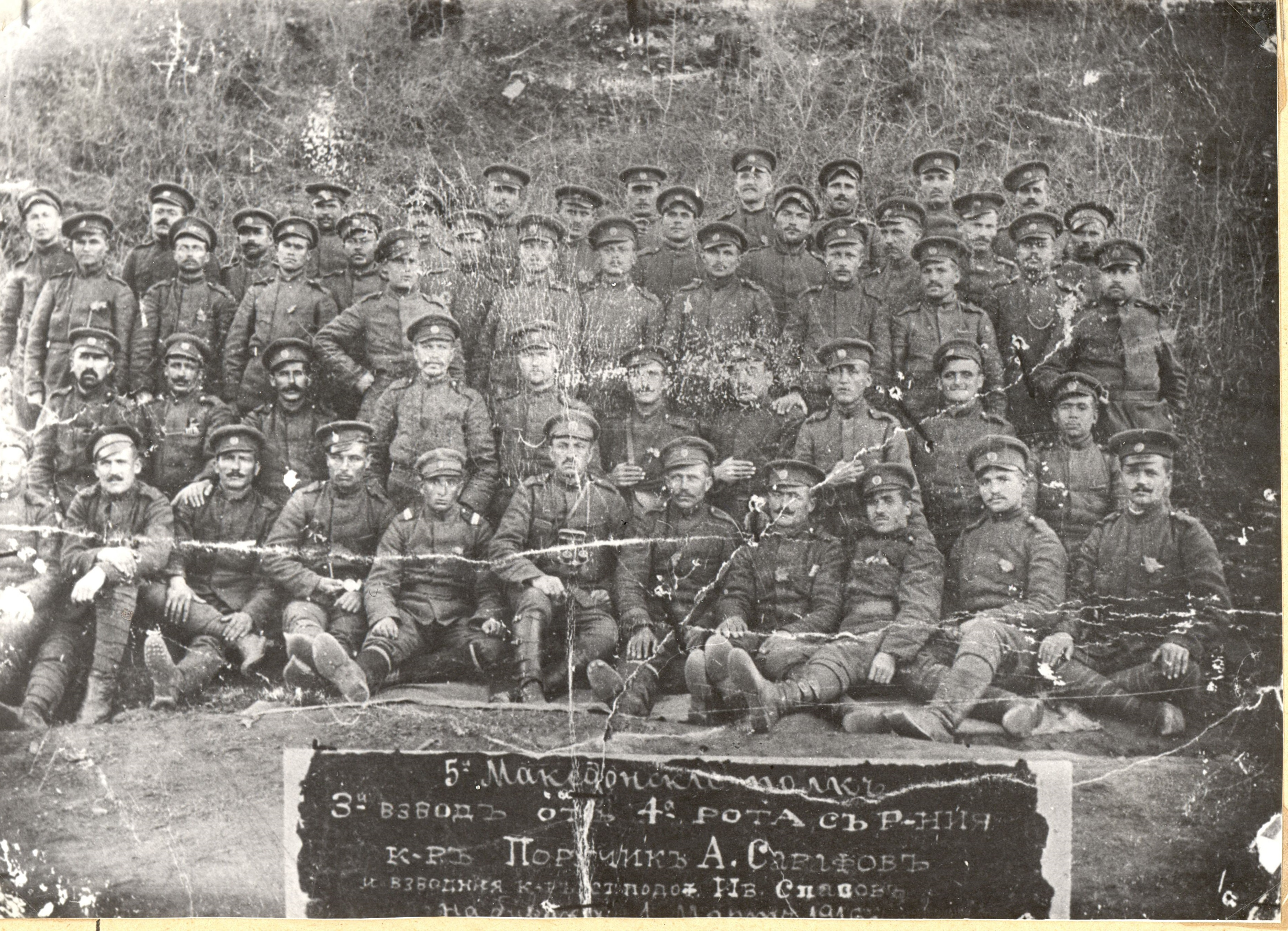 5th Macedonian regiment commander Lt. A. Sarafov. This media file is produced by Wikipedian in Residence in Category:Wikipedian in Residence at DARM in 2016.